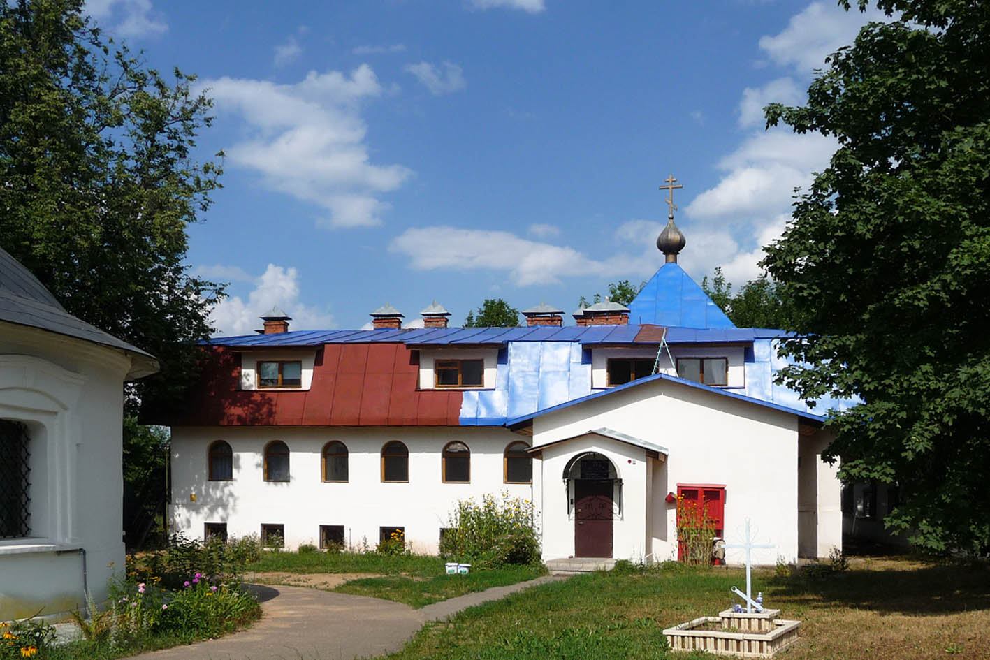 Orthodox classic gymnasium "Kovcheg" in the villasge of Aniskino with House-gymnasium Saint John the Evangelist church. Shchyolkovsky District, Moscow oblast, Russia.